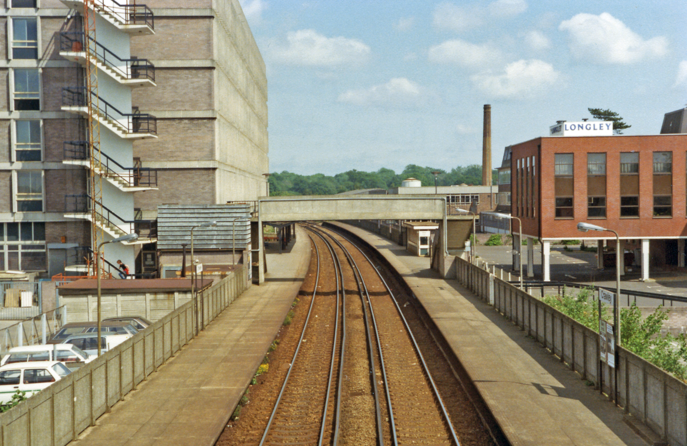 Crawley station, 1983. View westward, towards Horsham etc.: new station, opened 28/7/68 to replace ex-London, Brighton & South Coast station a little to the west: London - Three Bridges - Horsham - Mid-Sussex main line.Crawley station, 1983.